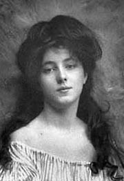 Evelyn Nesbit - artists' model and chorus girl